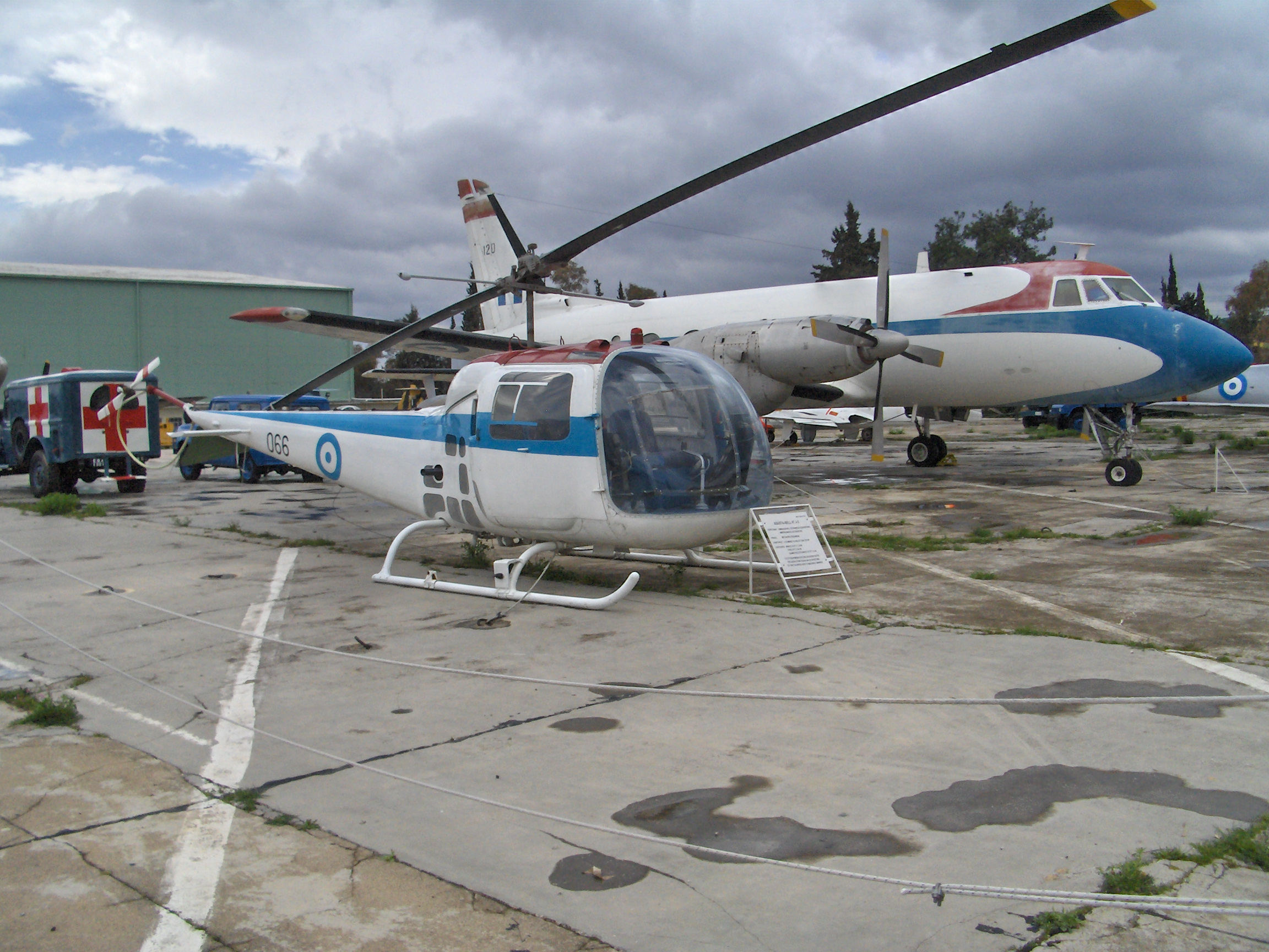 Exhibit at the Hellenic Air Force Museum at Dekelia (Tatoi), Athens, Greece. Agusta-Bell 47J Ranger